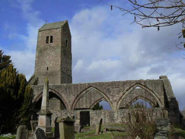 Muthill old church Ruins of a medieval parish church, mainly 15th century although the impressive tower is older.